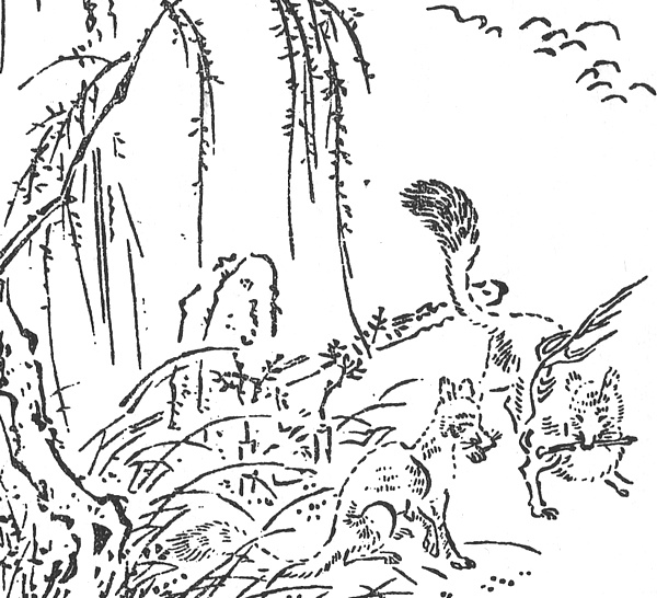 Kitsunebi (狐火) from the Kinmō_Tenchiben (訓蒙天地弁)